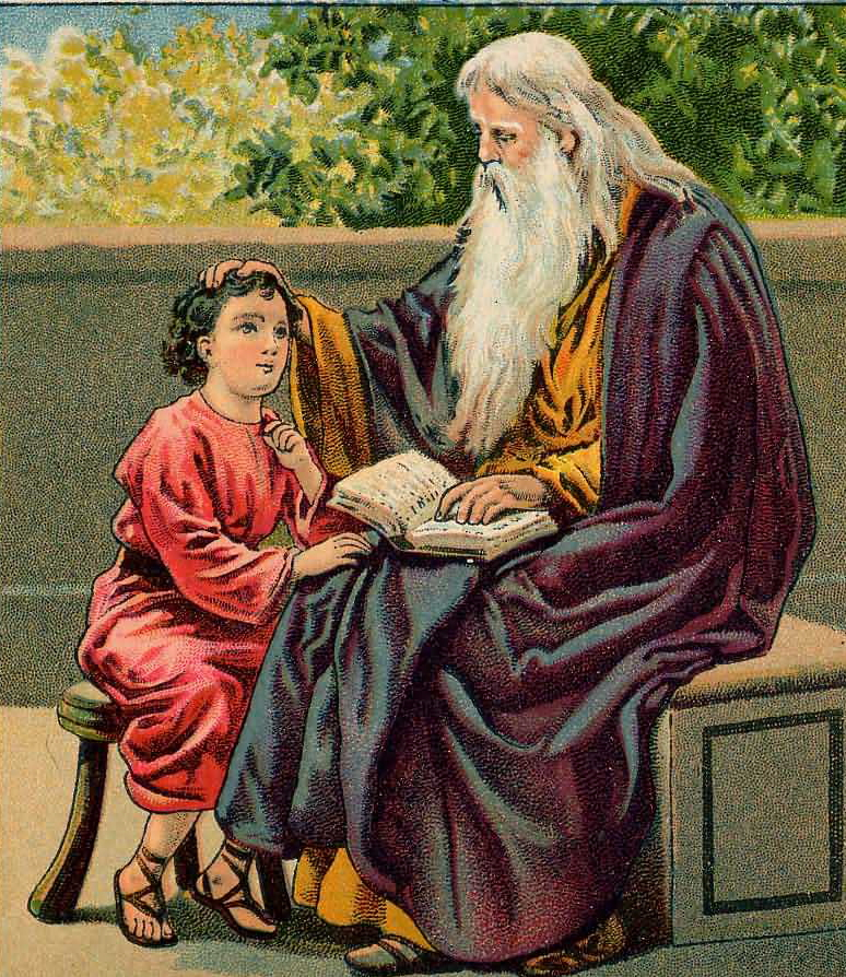 "Make them known unto thy children and thy children's children." Deuteronomy 4:9.